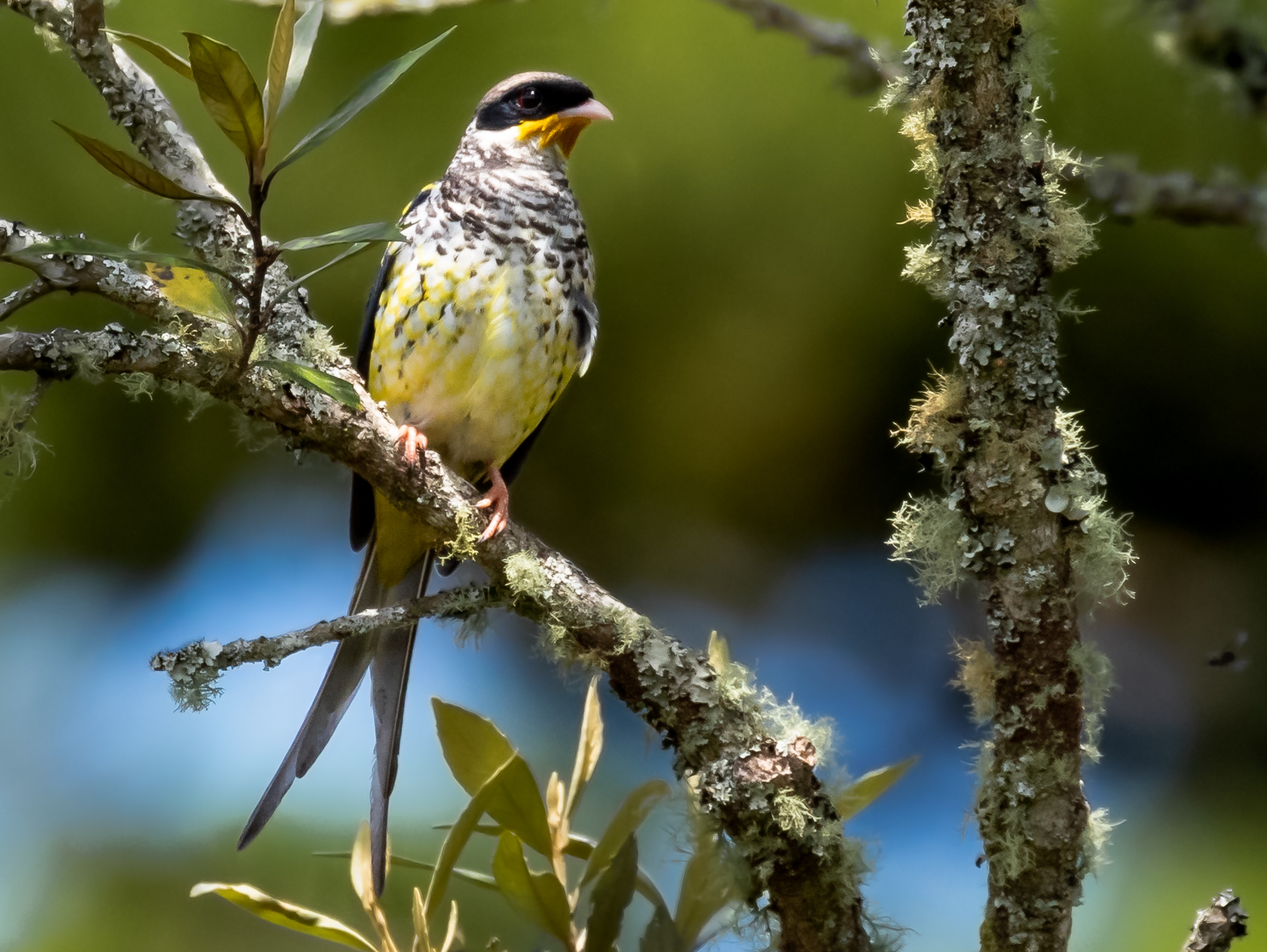 Swallow-tailed Cotinga (male); Campos do Jordão, São Paulo, Brazil